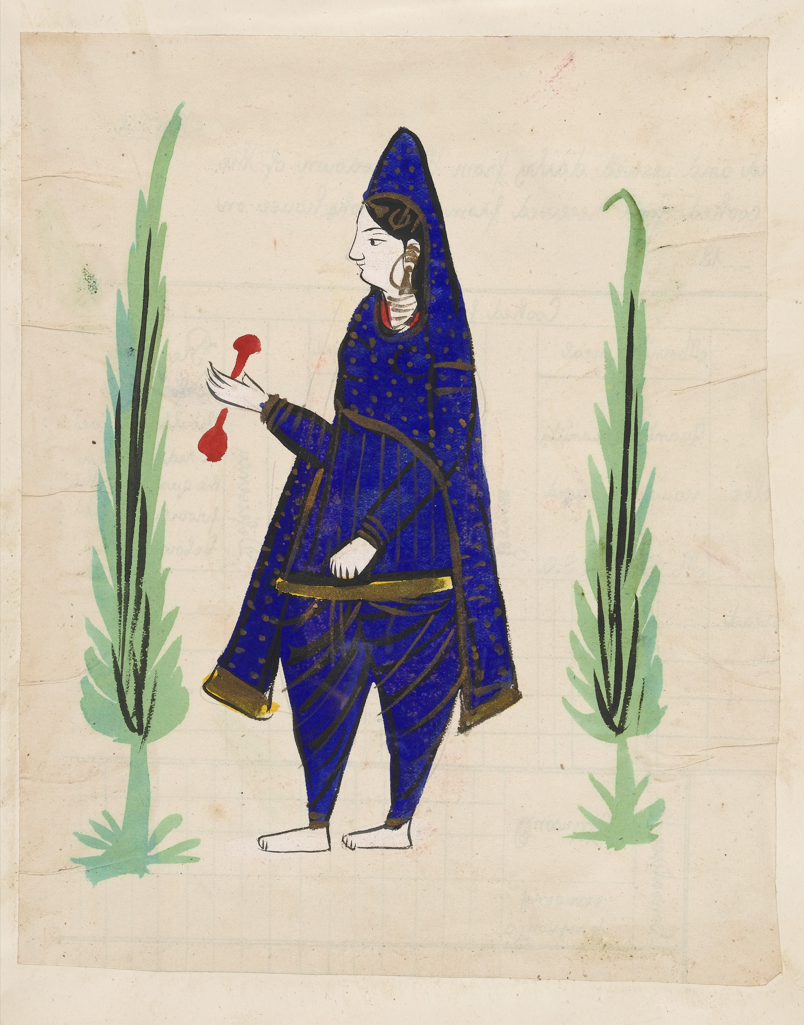 An Indian woman in regional clothing Iconographic Collections Keywords: Traditional; India; Clothing; Costume; Sikh